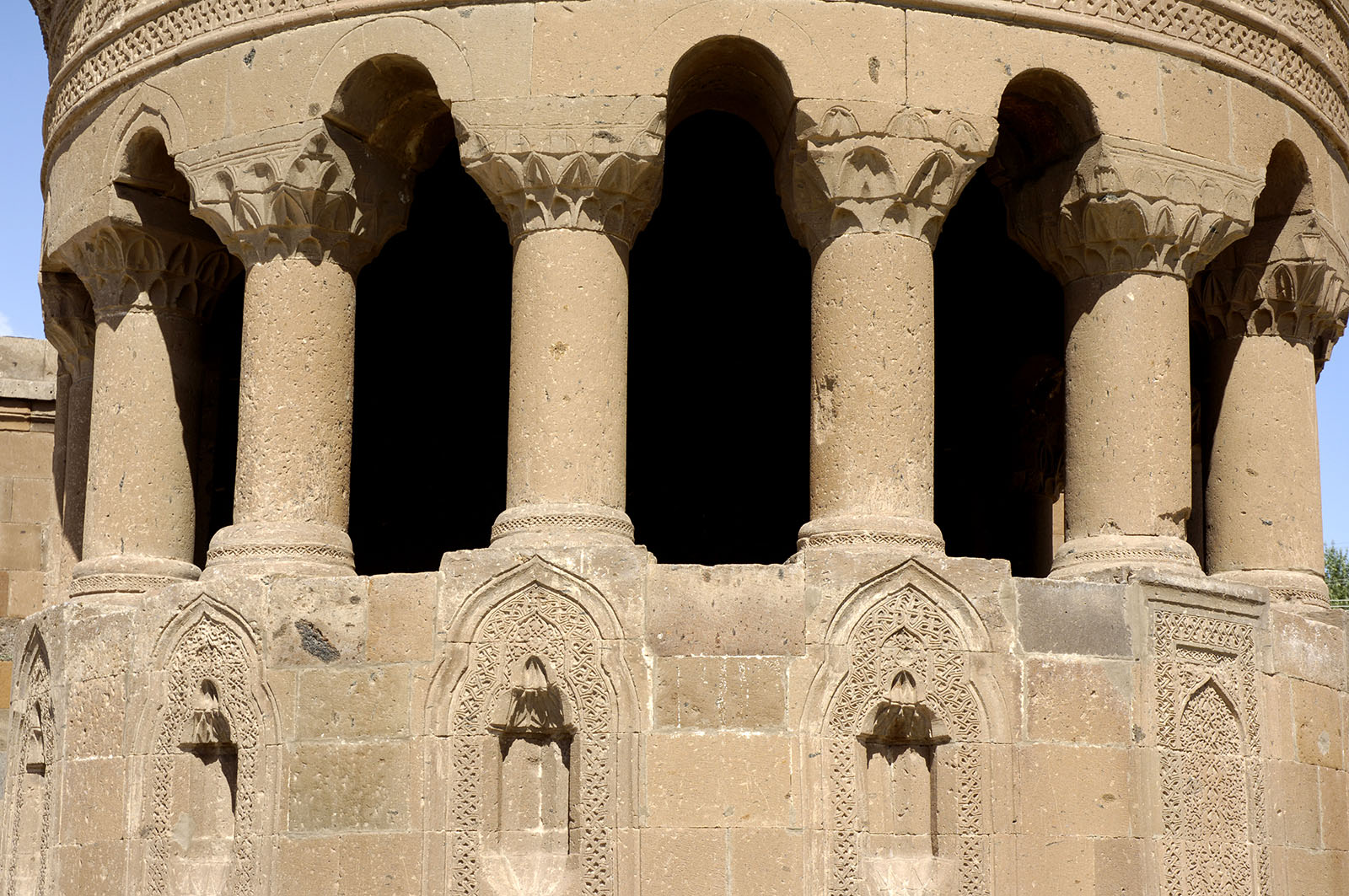 The Emir Bayındır mosque and tomb. It was built in 1491, founded by the governor of a Roha governor, Bayındır. The top floor looks like a round temple with a columnated corridor. The roof is supported by arches that rest on stalactite capitals. Only the back wall that sets it apart from the mosque is completely closed. This is a detail of the türbe or tomb. Taken from a slide, older than the digital pictures. Many Seljuk (and later Seljuk-style) mausolea are a stone evocation of the pre-islamic funeral hills of the nomads of Central Asia. During their lives, prominent clan members had their funeral hill (‘kurgan’) prepared; when death came, a circular tent was erected on top of the kurgan, and the deceased’s body was laid out, in order to be greeted a last time by the clan members. After this greeting period, the body was placed in the burial chamber inside the kurgan. A ‘tent-style’ Seljuk Türbe has two parts: a circular or polygonal room with a pyramidal or cone roof, where a cenotaph sarcophagus can be visited and honoured; this is the part referring to the funeral tent. Beneath this ornamented construction the real burial chamber (‘cenazelik’ or ‘mumyalık’) is to be found, where the deceased’s remains were buried; this is the part referring to the burial hill.